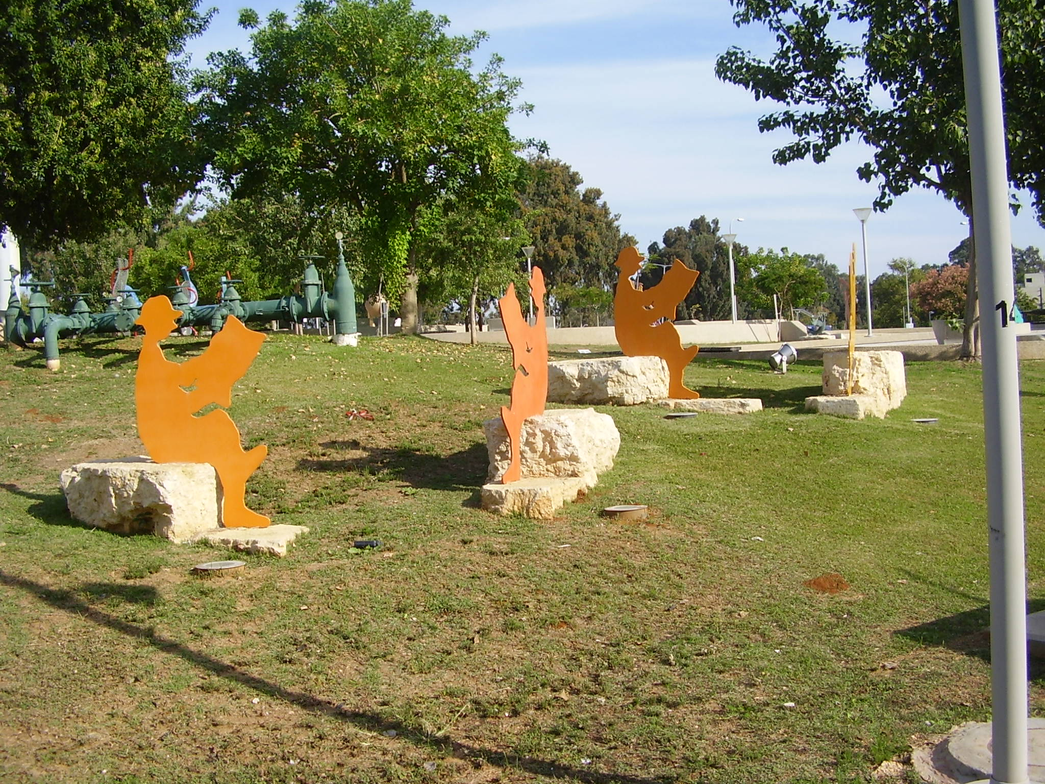 "Readers" by Uri Dushy in the sculpture garden at Sheba Hospital